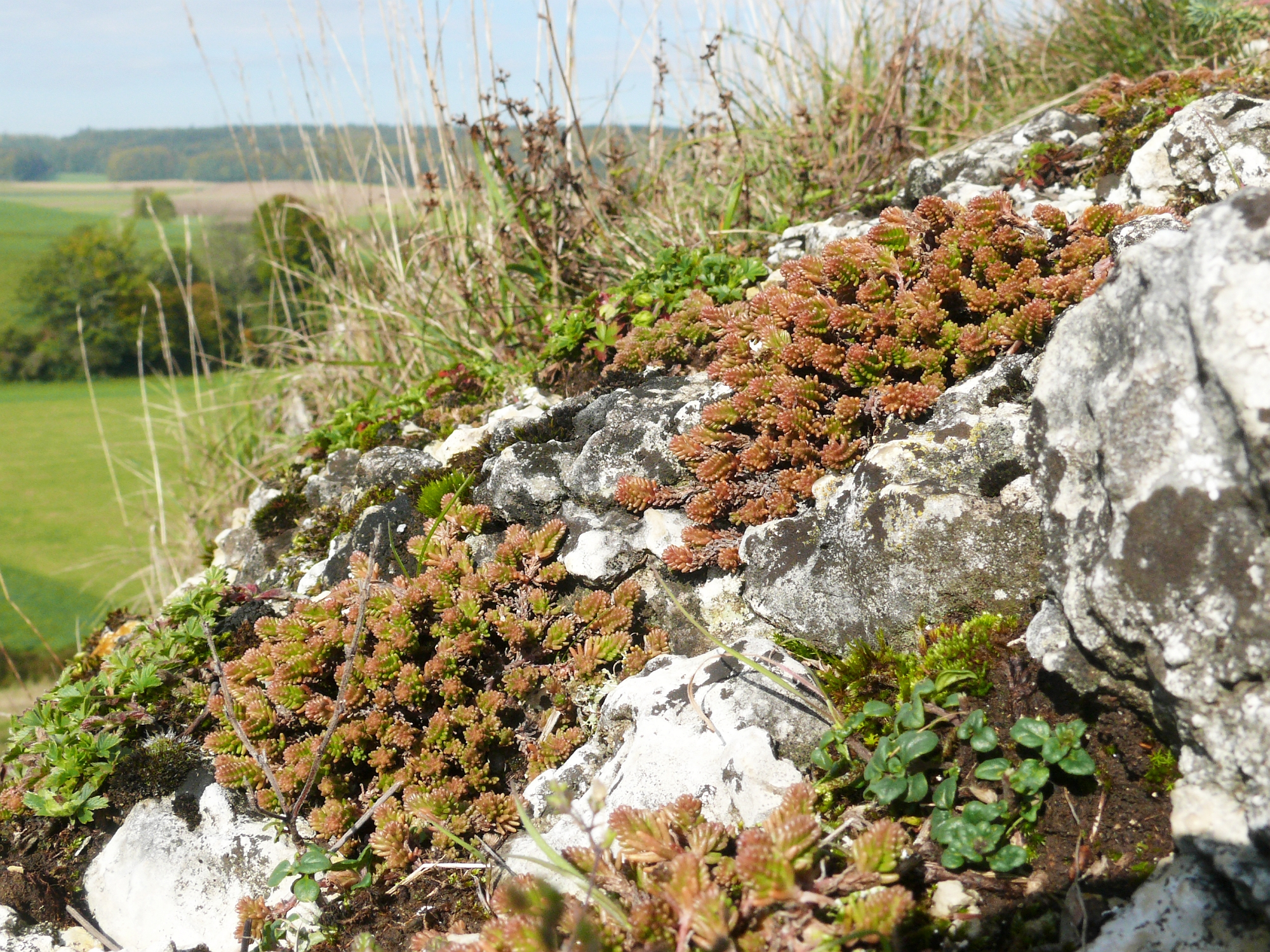 Sedum sexangulare, Härtsfeld, Germany